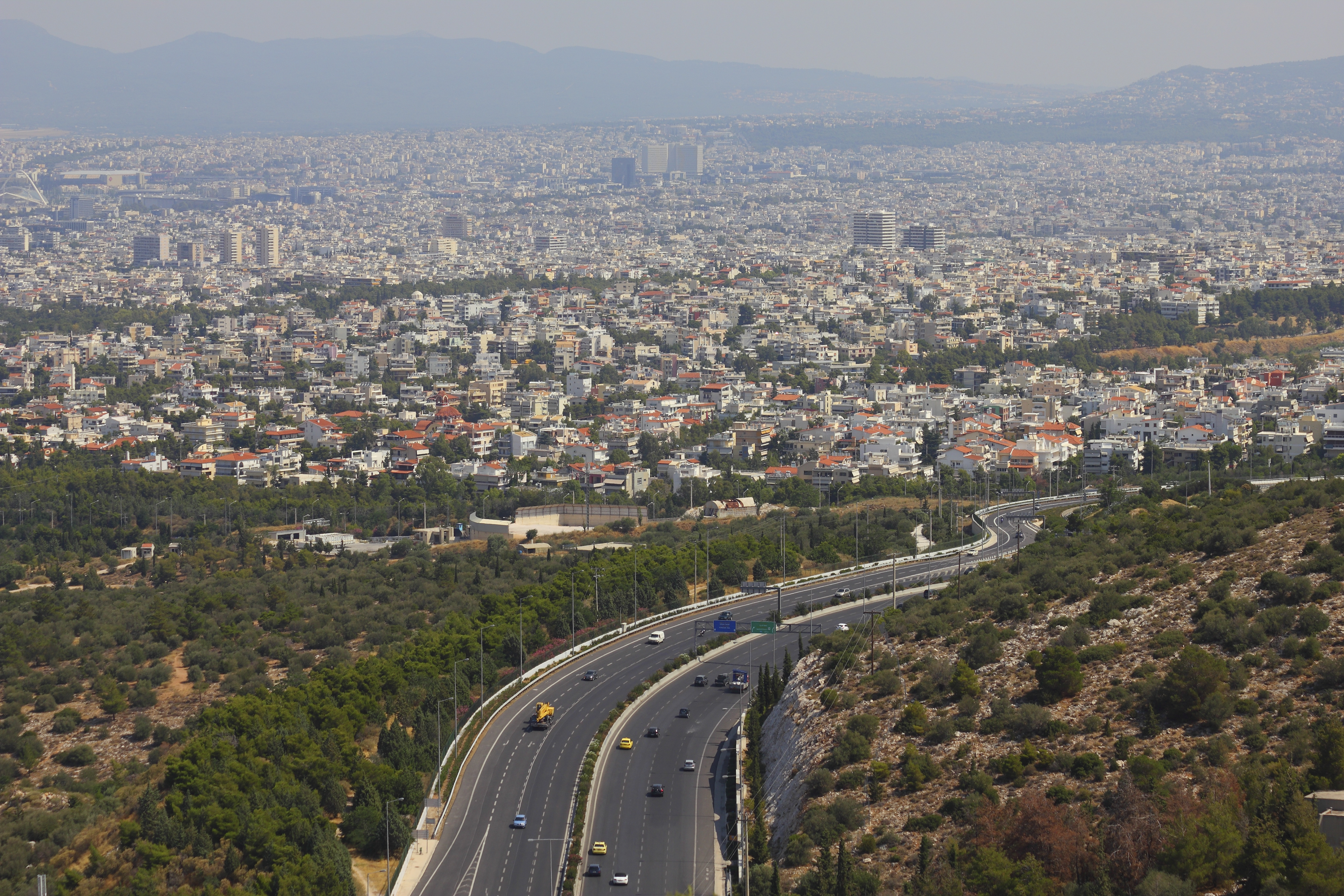 Hymettus tangent (Periferiaki Imittou) - view from Kalogeros Hill to the suburbs of Athens (Attica, Greece)